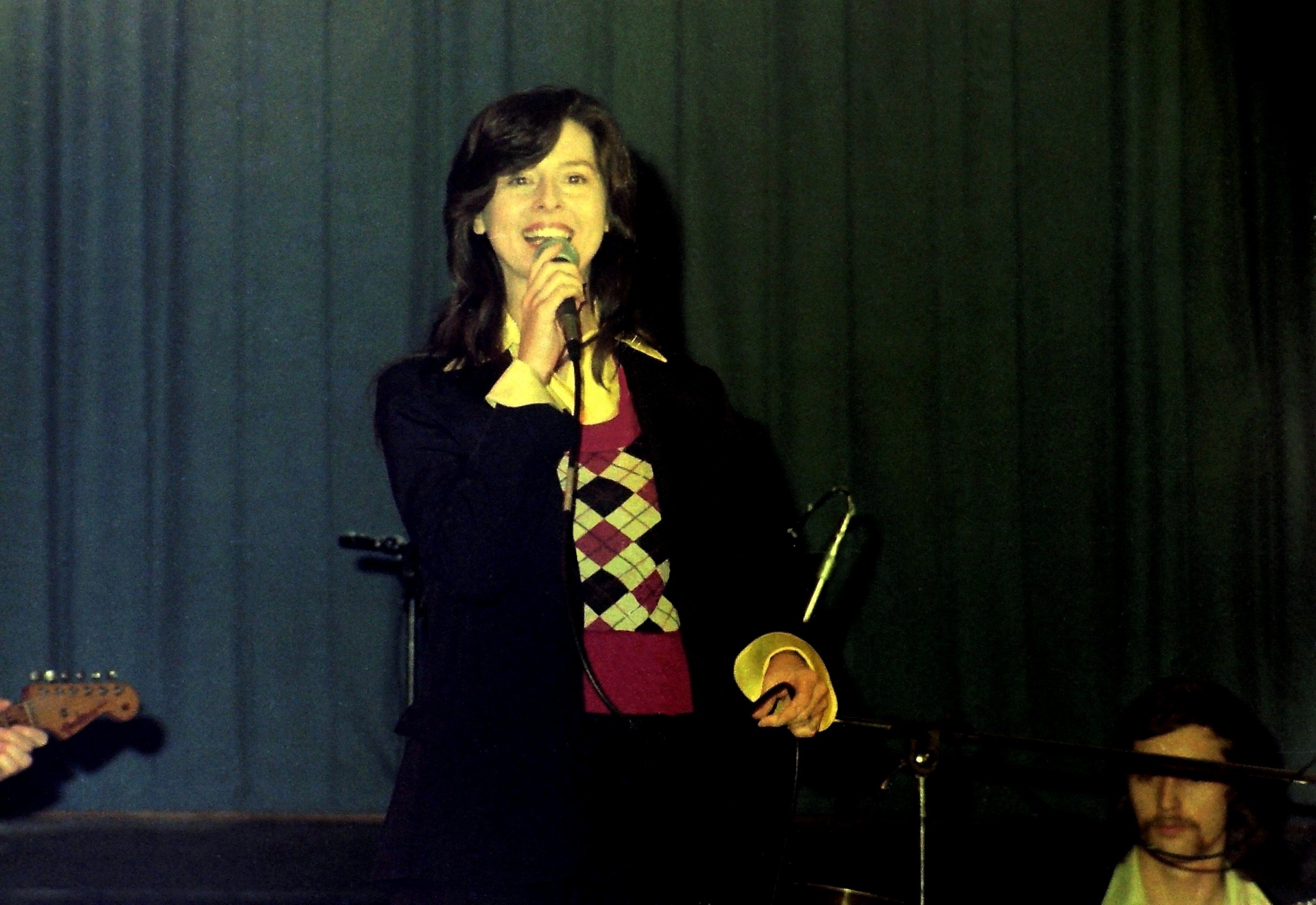 1977 - Linda Gail Lewis in Ludwigshafen, singing Country songs... performing Opener for her brother, Jerry Lee Lewis.